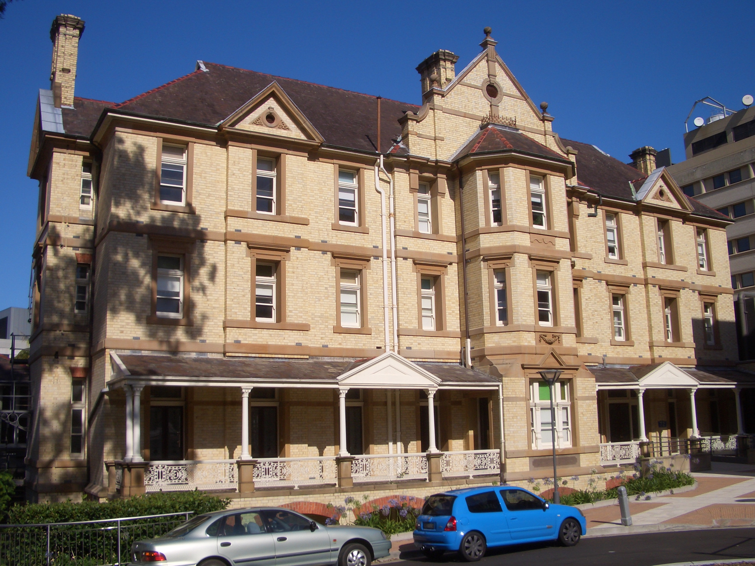 Royal Prince Alfred Hospital, Camperdown. Kerry Packer Education Centre, formerly the administration block.